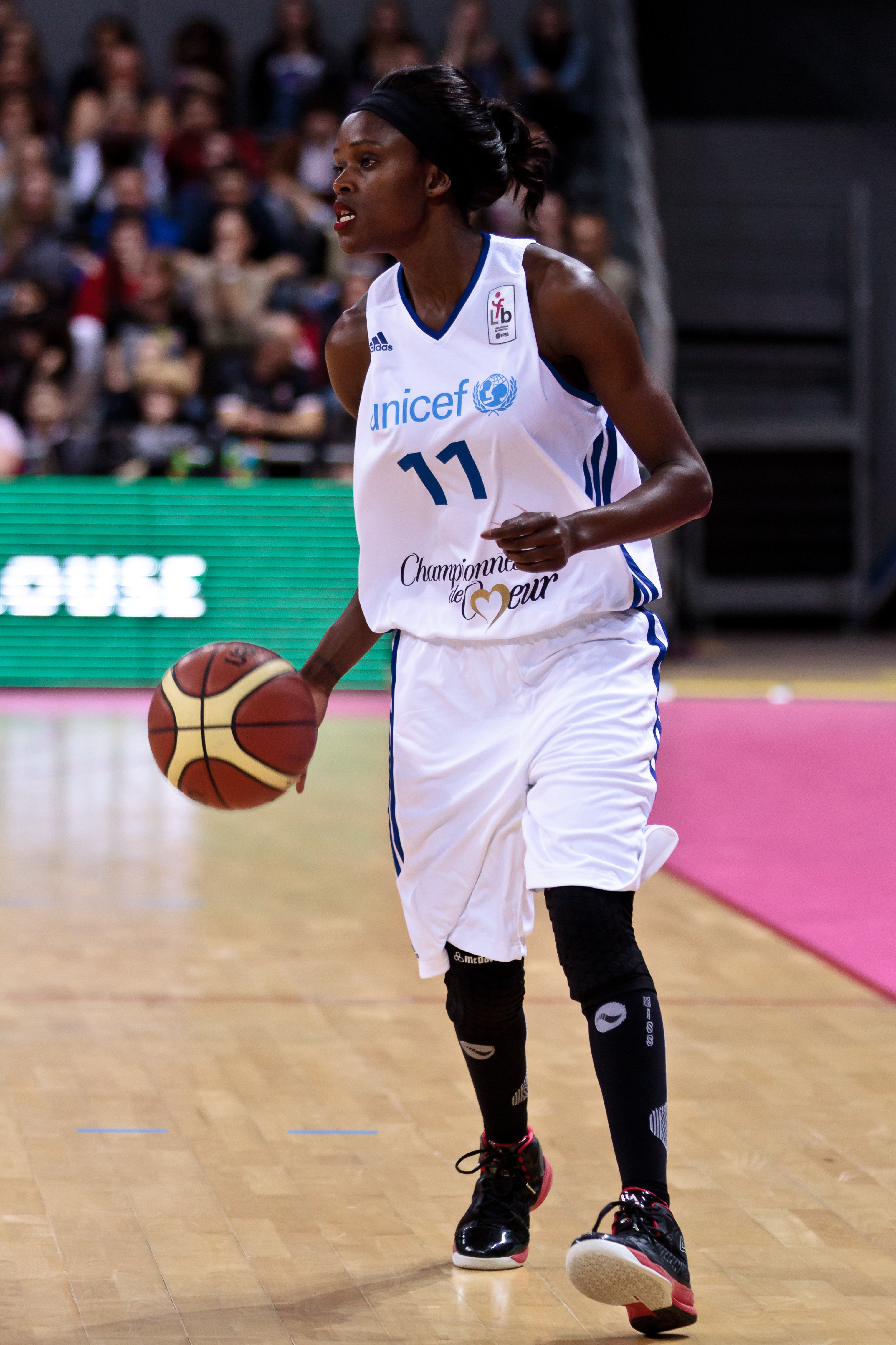 Émilie Gomis during exhibition game Championnes de cœur in Toulouse.